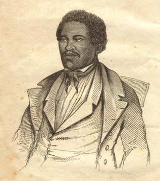 Frontispiece of the Narrative of Henry Box Brown Who Escaped From Slavery, Enclosed In A Box Three Feet Long, Two Wide and Two And A Half High. Written From A Statement of Facts Made By Himself With Remarks Upon The Remedy For Slavery By Charles Stearns